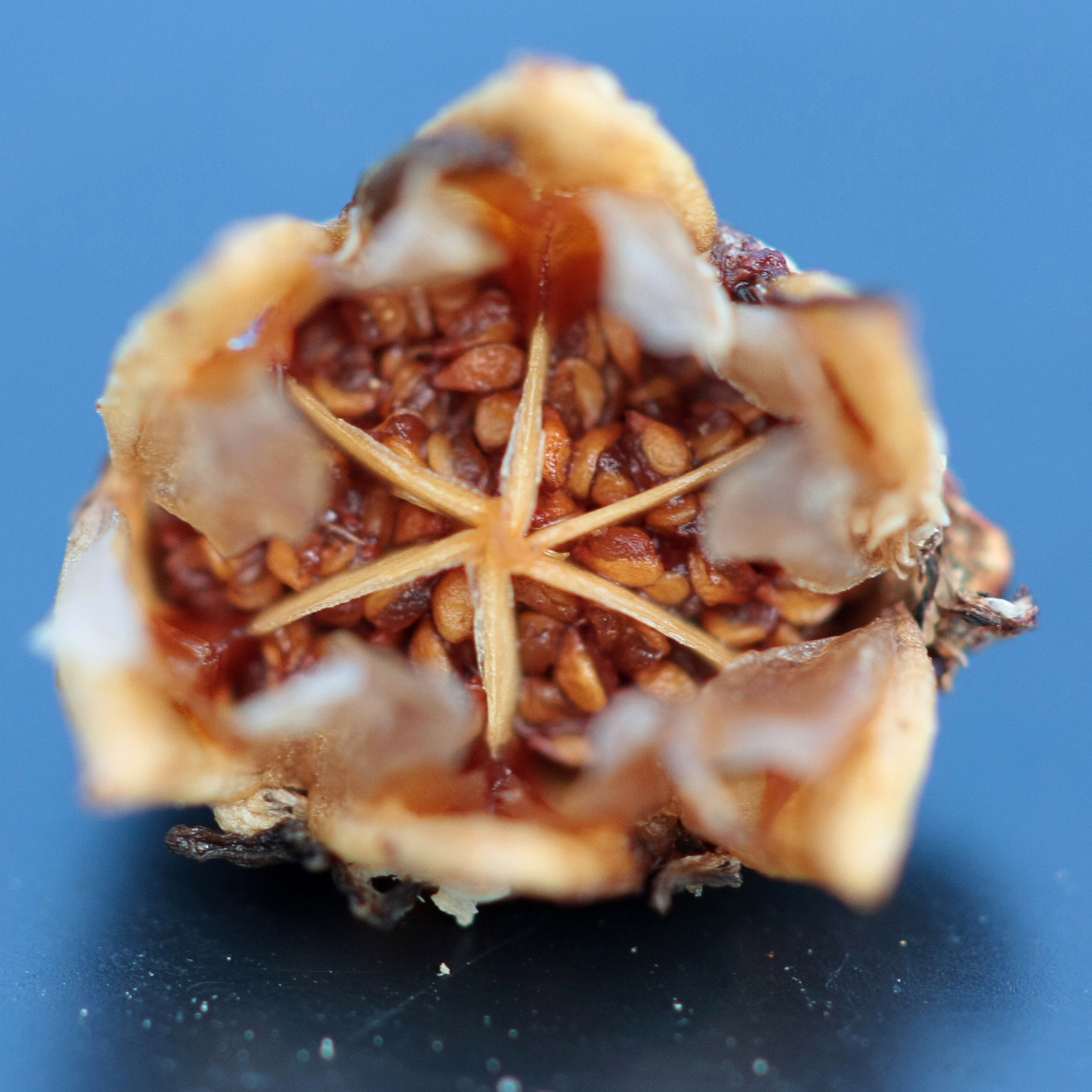 Samenkapsel Lithops aucampiae